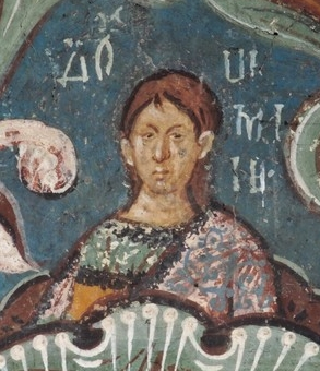 Detail of fresco Loza Nemanjića,Dušman (brother of Dušan),Visoki Dečani,Serbia.